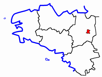 Description: Map for localisazion of cantons of Bretagne region in France Source: made by Hervé Tigier from another large map